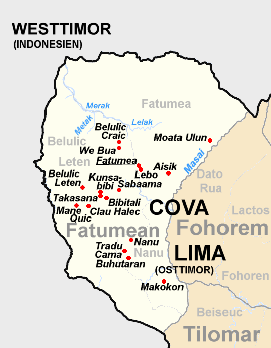 Administrative map of the Fatumean administrative post of East Timor